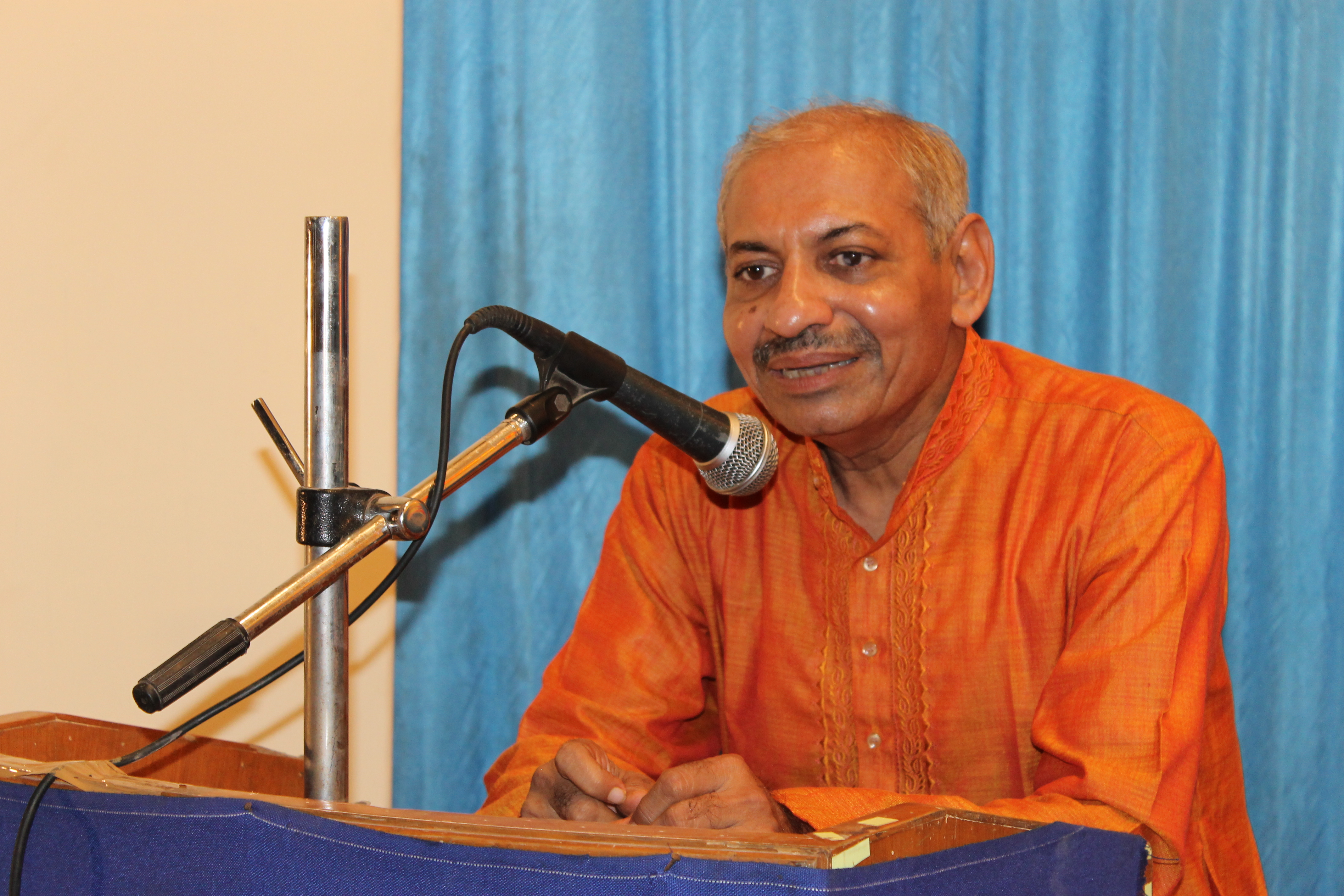 Harshadev Madhav at Gujarat College on 18 October 2015